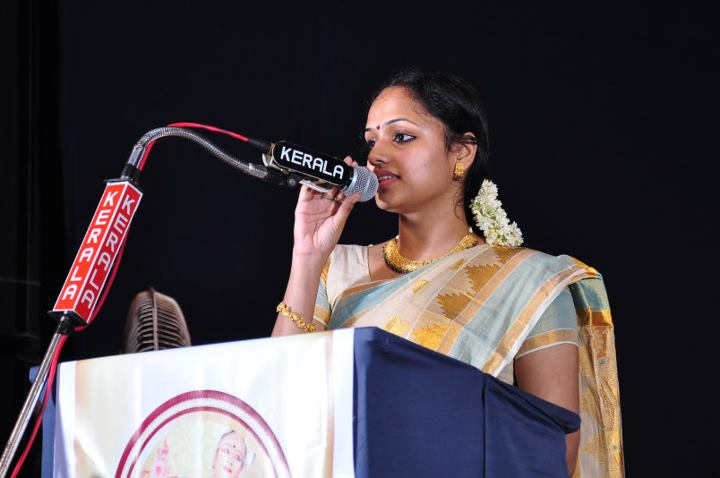 Speech for Kerala Sangeetha Nadaka Acadamy